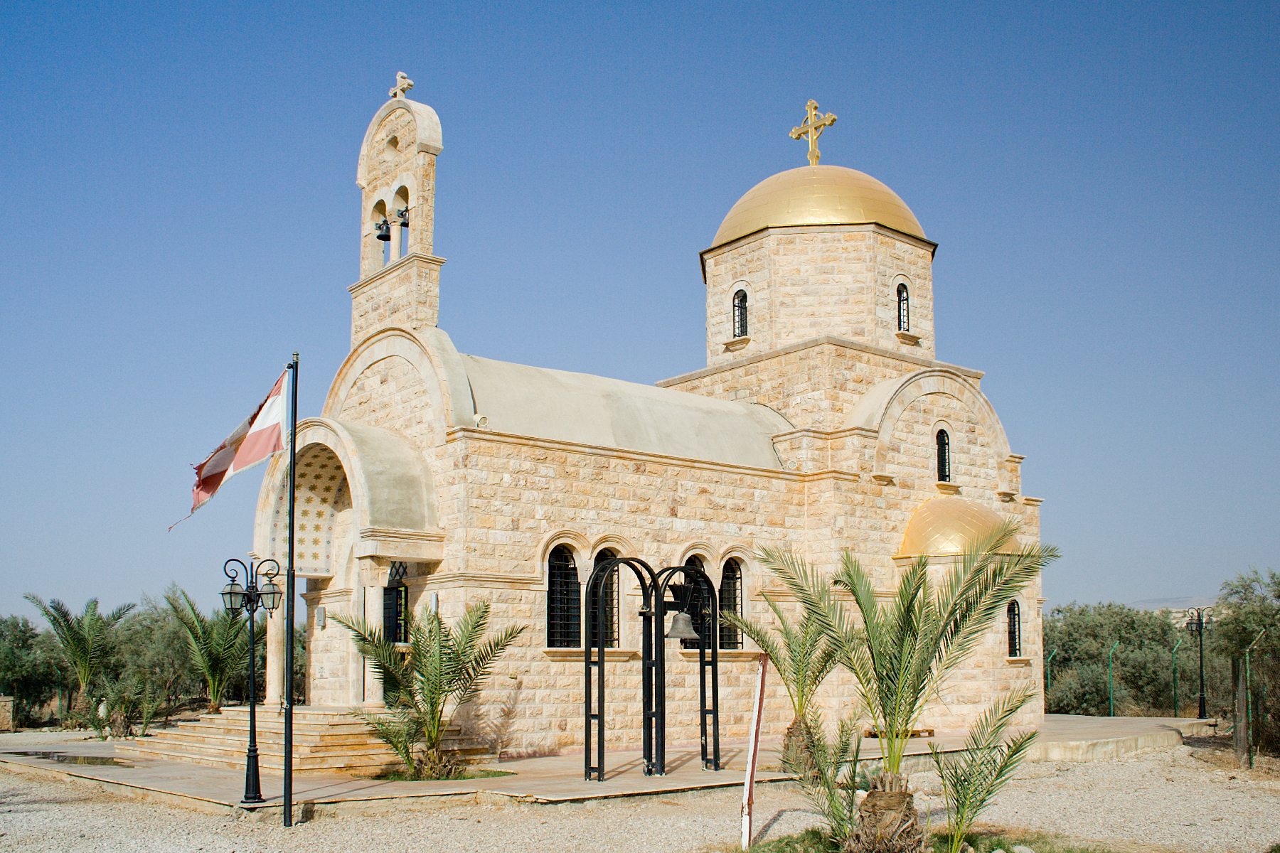 John the Baptist Church was erected by the Orthodox Church in honor of John the Baptist. The interior of the church contains many beautiful murals depicting the life events of Christ. The church is located just meters from the Jordan River.